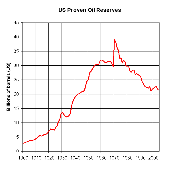 Chart of U.S. Proven Oil Reserves from 1900 to 2005